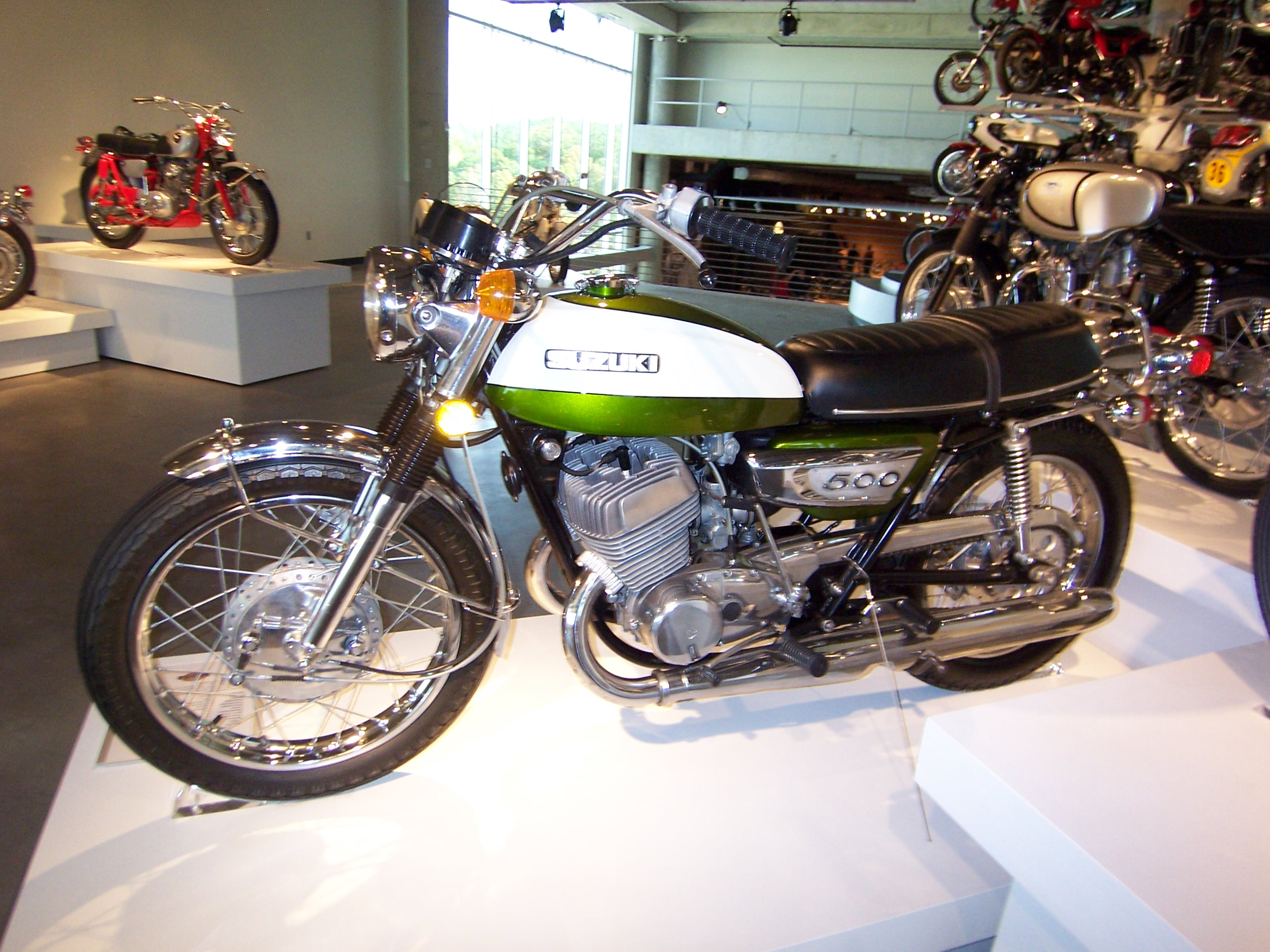 Barber Motorcycle Museum - Oct 22 2006 (590) Suzuki T500 1972 / More Description is here